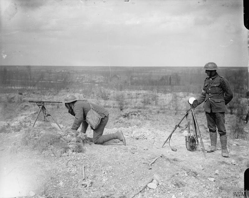 The Battle of Arras, April-may 1917 Two troops of the Royal Engineers signalling by means of a heliograph near Feuchy, April 1917.